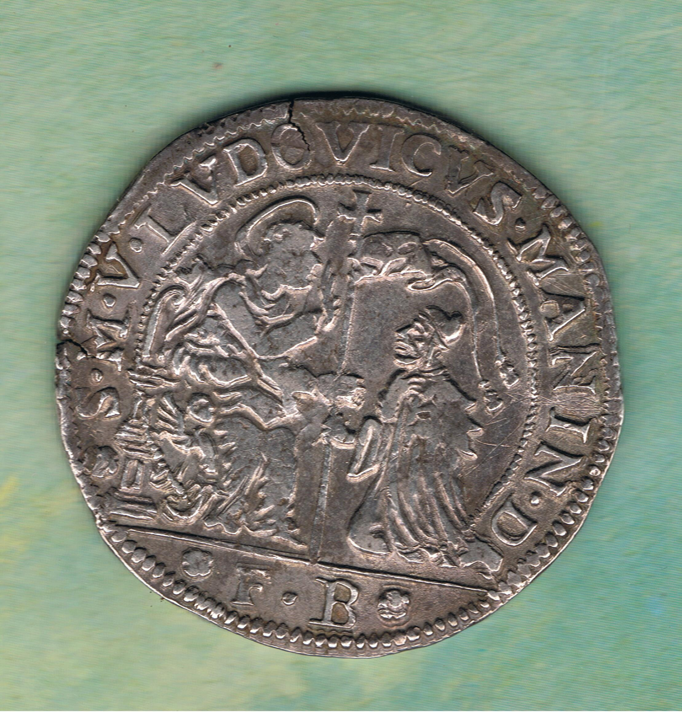 Scan (by me, R.de Salis, Rodolph (talk) 01:01, 26 February 2015 (UTC)) of a Ducatus Venetus, Venetian ducat, of the reign of Ludovicus Manin Dux.